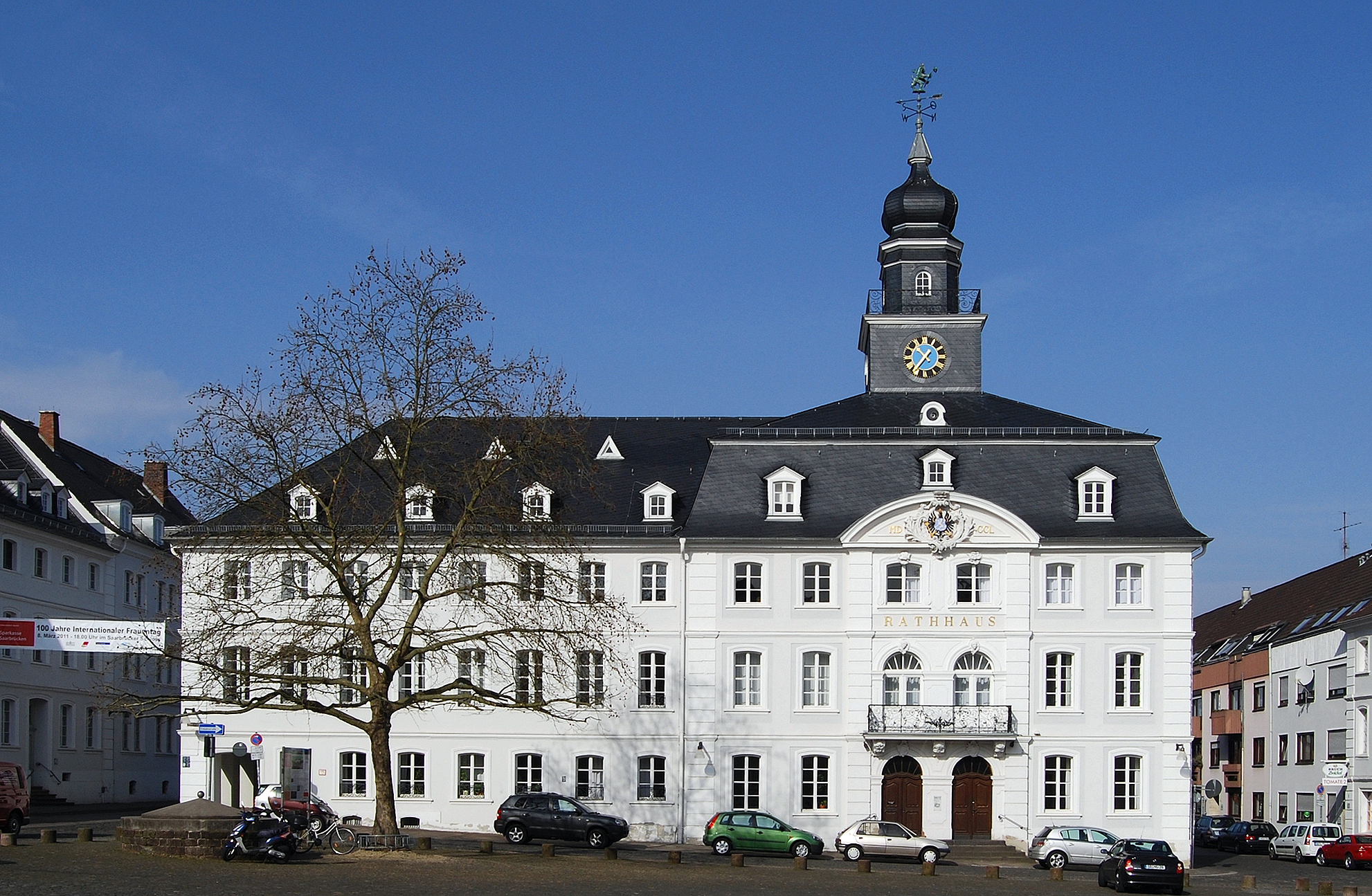 The old town hall of Saarbrücken, Saarland.